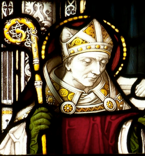 Portion of a stained glass window in Truro Cathedral, donated by a benefactor in 1907.